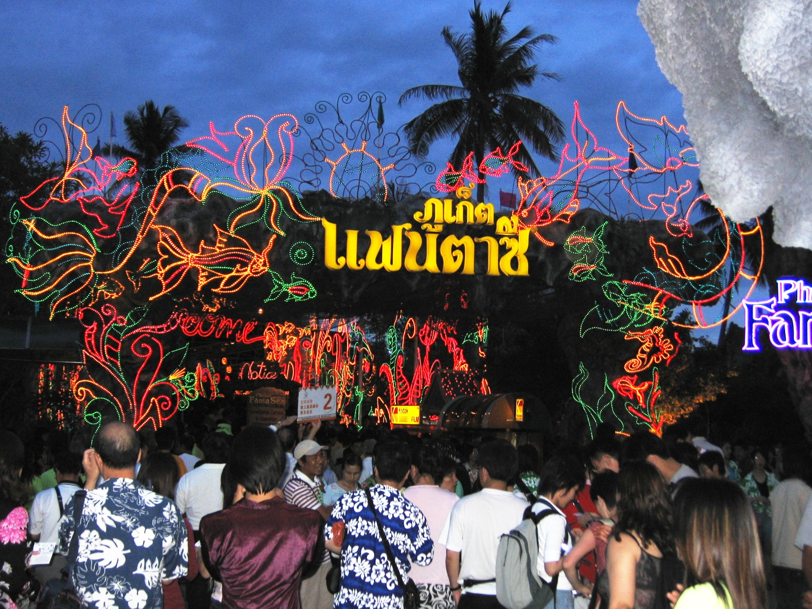 The entrance into Phuket Fantasea, Kamala Beach, Kathu, Phuket.